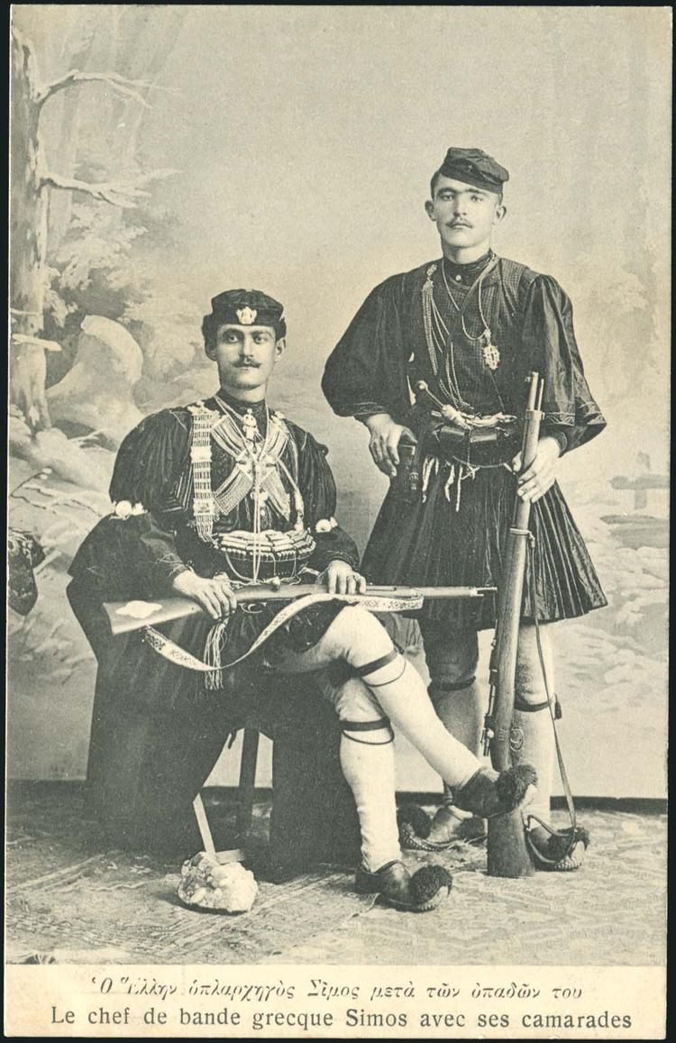 Simos Ioannidis (Σίμος Ιωαννίδης) a Greek Macedonian soldier of the Mecedonian Struggle, born in Alona, Florina (Greek: Φλώρινα) (Slavic: Lerin, Лерин) Greece.